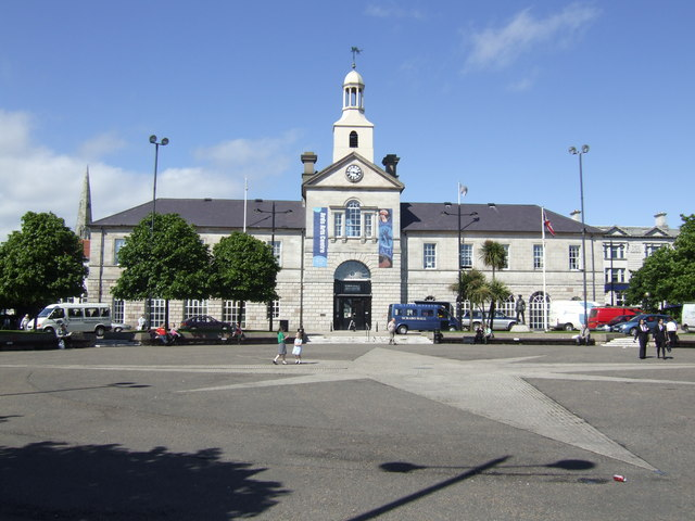 Newtownards Town Hall Built by the Marquis of Londonderry as a Market House (formerly a prison) from local Scrabo Stone in 1765. The Hall stands in the town centre on the north side of Conway Square.